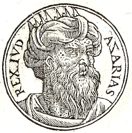 Ozias(Uzziah), King of Judah (809-759 B. C.) son and successor of Amazias.